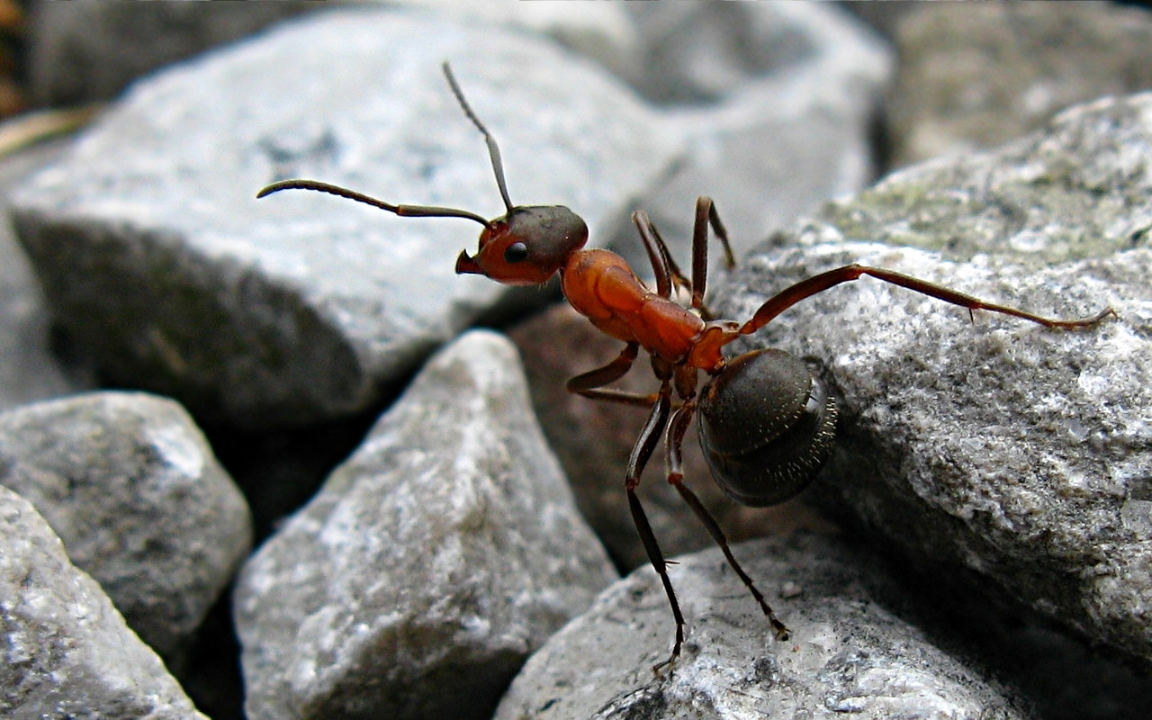 Formica rufa on patrol.